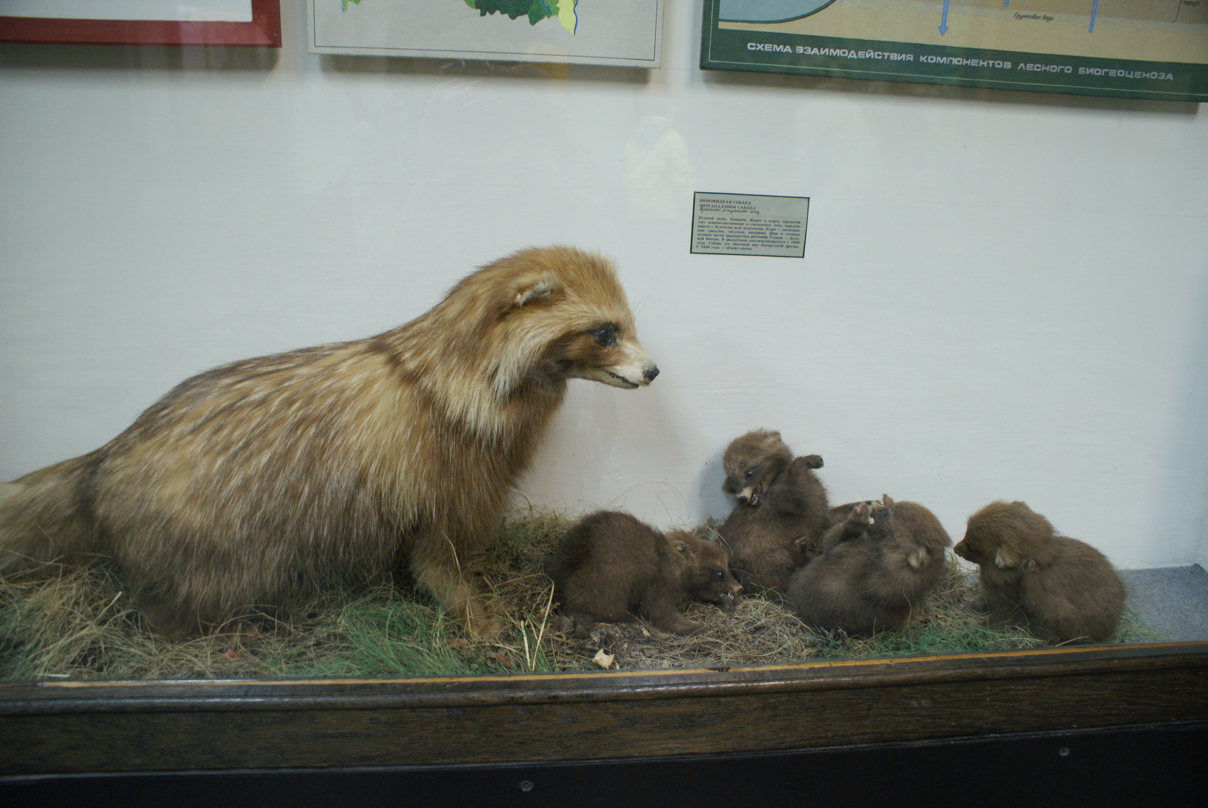 Nyctereutes procyonoides (stuffed) in Belarusian Nature and Environment Museum